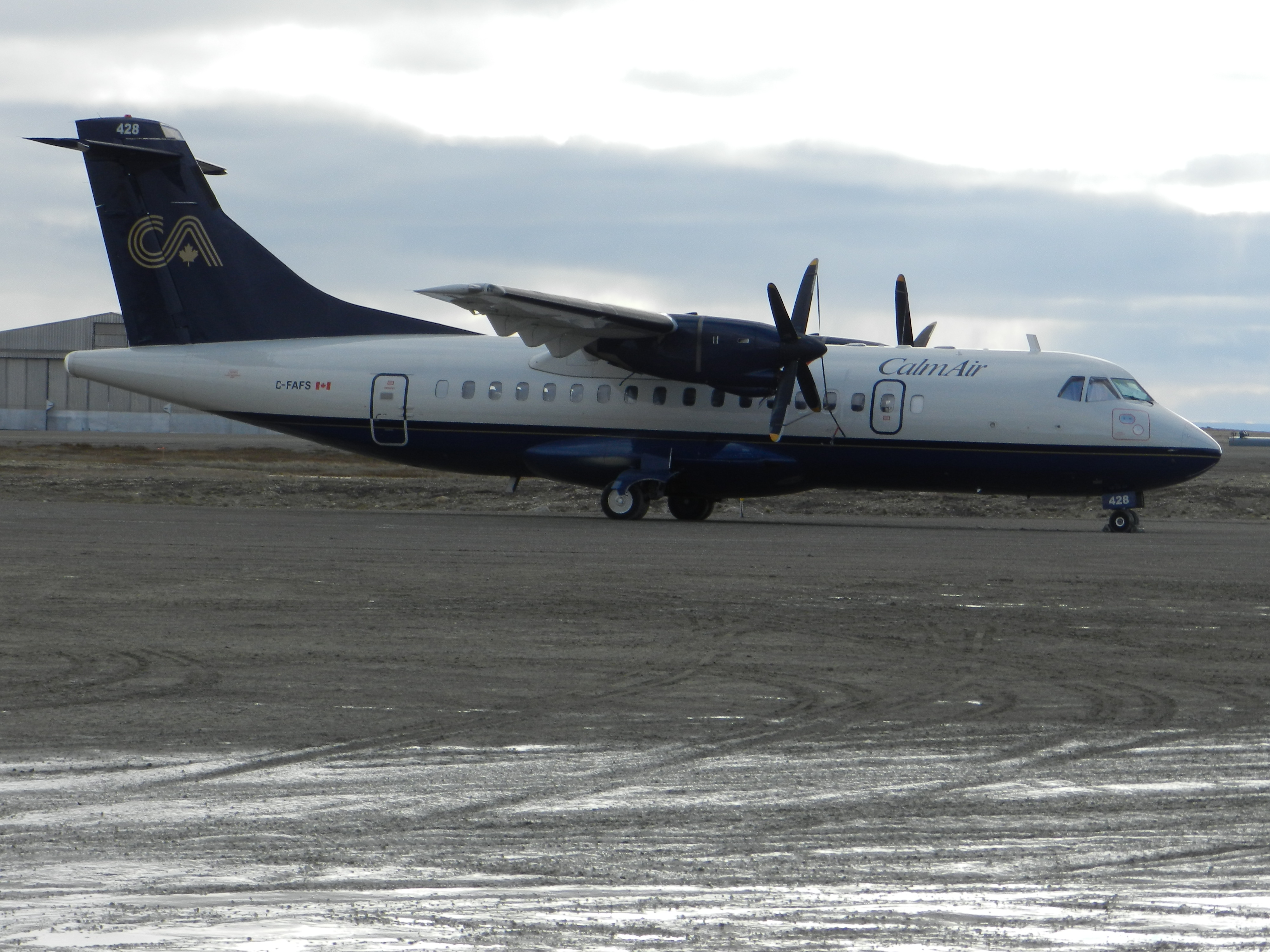 C-FAFS, an AT43 belonging to Calm Air at Cambridge Bay Airport